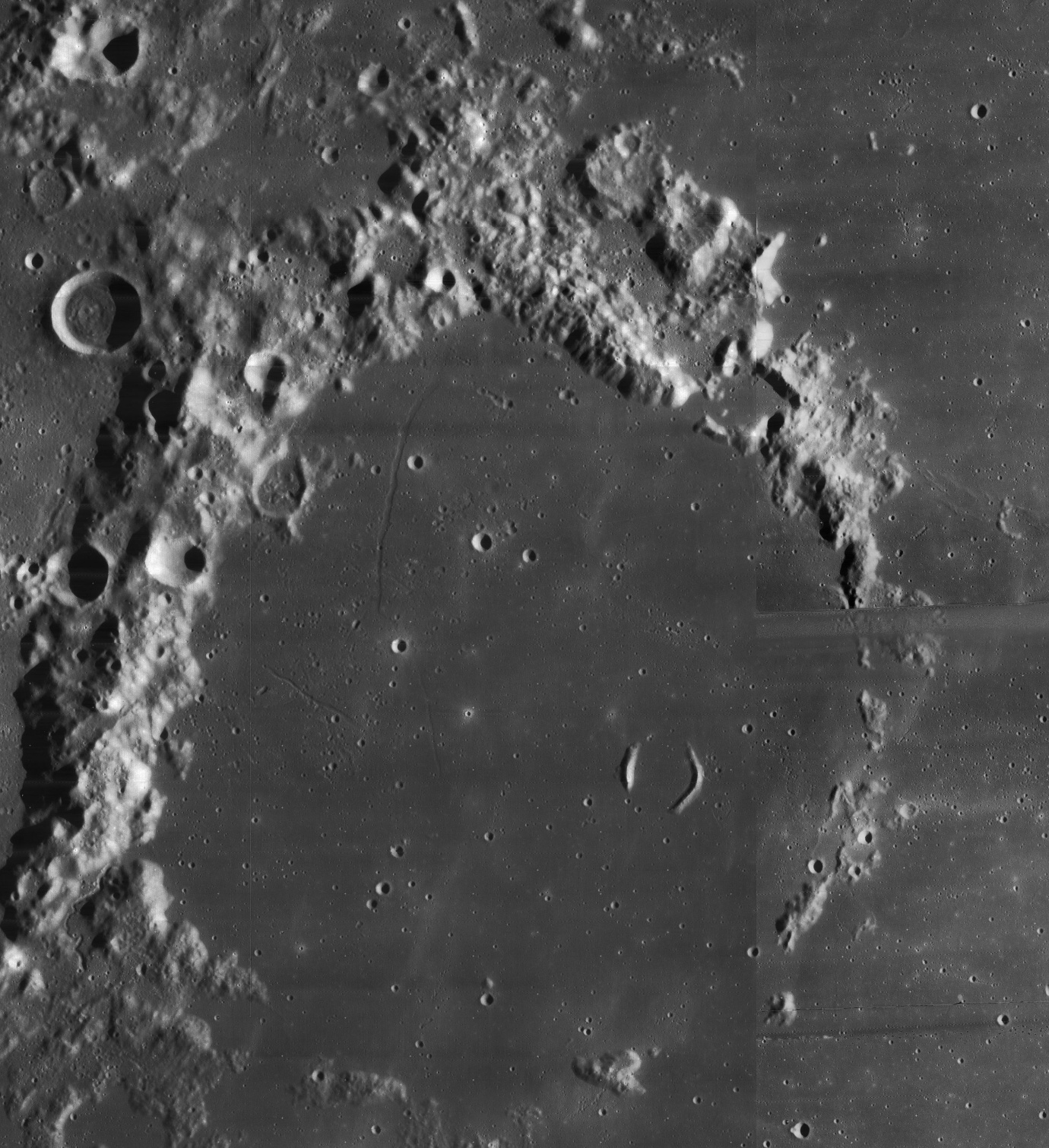 Eddington, on the moon. Mosaic of two Lunar Orbiter 4 images. The gray band at right is an artifact of the original image.